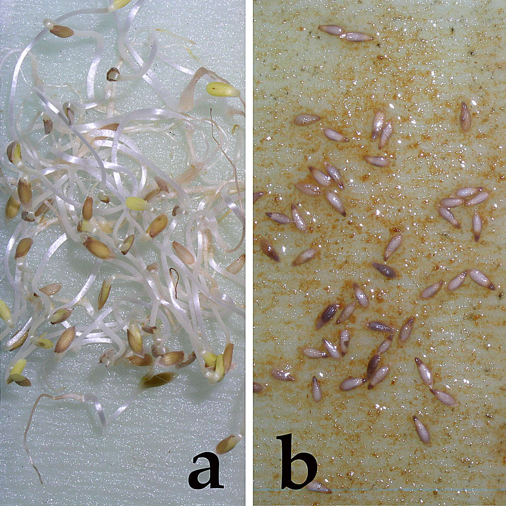 Lactuca test with Rosa pulpa